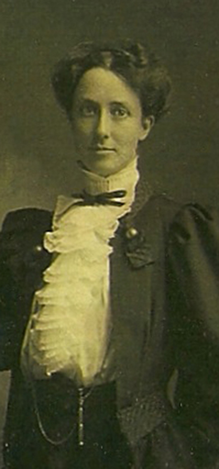 Agnes Forbes Blackadder